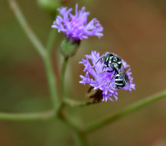 Cyanthillium cinereum (L.) H.Rob. (syn. Blumea chinensis (L.) DC.; Conyza chinensis L.; C. cinerea L.; Senecioides cinerea (L.) Kuntze ex Britt. & Wilson; Serratula cinerea (L.) Roxb. ; Vernonia cinerea (L.) Less.; V. cinerea var. parviflora (Reinw.) DC.)- ash coloured fleabane, little ironweed, purple fleabane • Bengali: kukshim • Gujarati: sadori • Hindi: सहदेवी sahadevi • Manipuri: khongjainapi • Marathi: सहदेवी sahadevi • Oriya: biranji • Sanskrit: सहदेवी sahadevi • Tamil: பூவங்குருந்தல் puvamkuruntal • Telugu: సహదేవిచె sahadevi- at Ananthagiri Hills, in Rangareddy district of Andhra Pradesh, India.